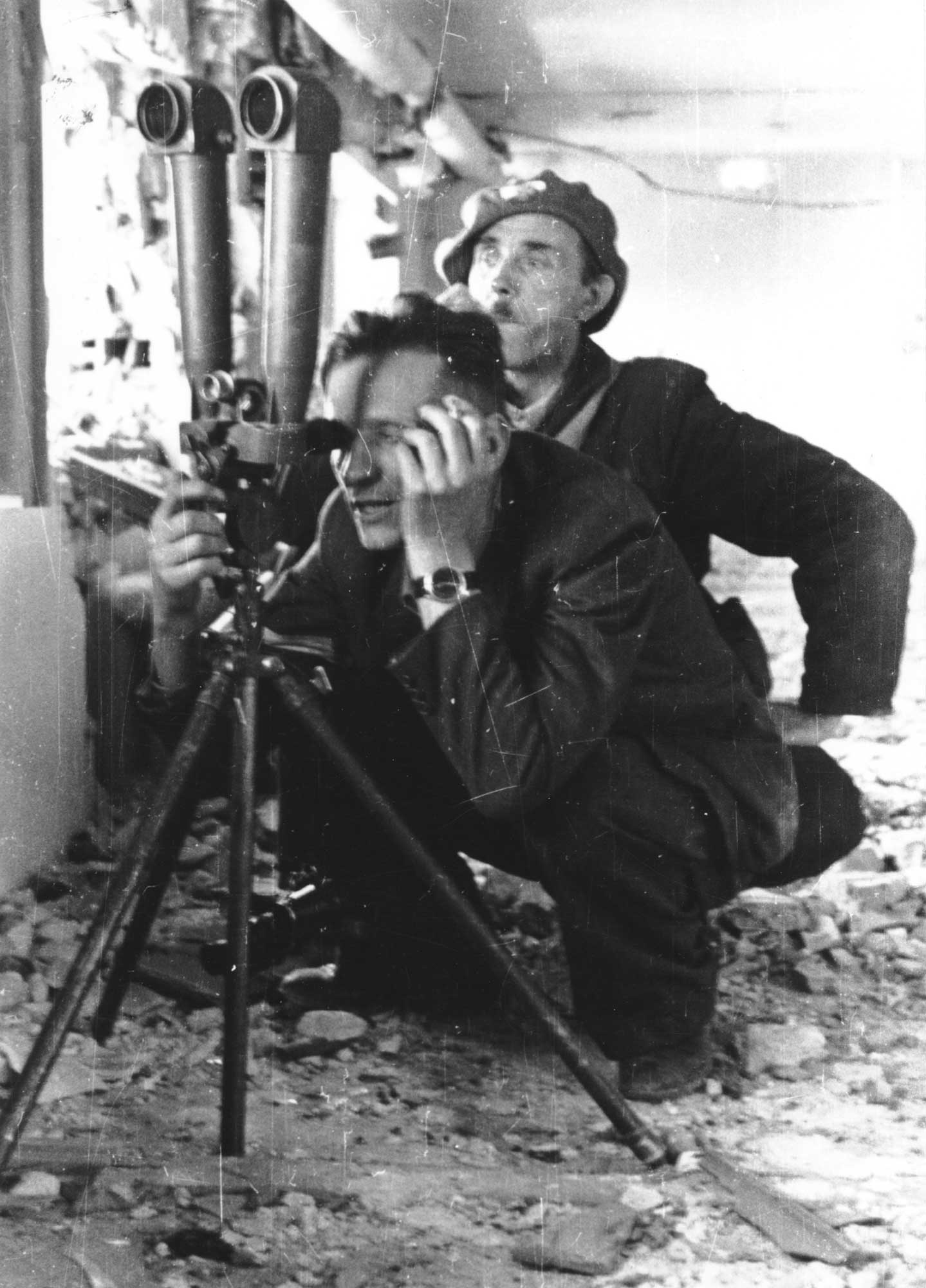 WarsawUprising: Capitan Stefan Mich "Kmita" from "Koszta" company on high floor of Prudential building at Napoleon Square looking for troop movements on other side of Wisła river.